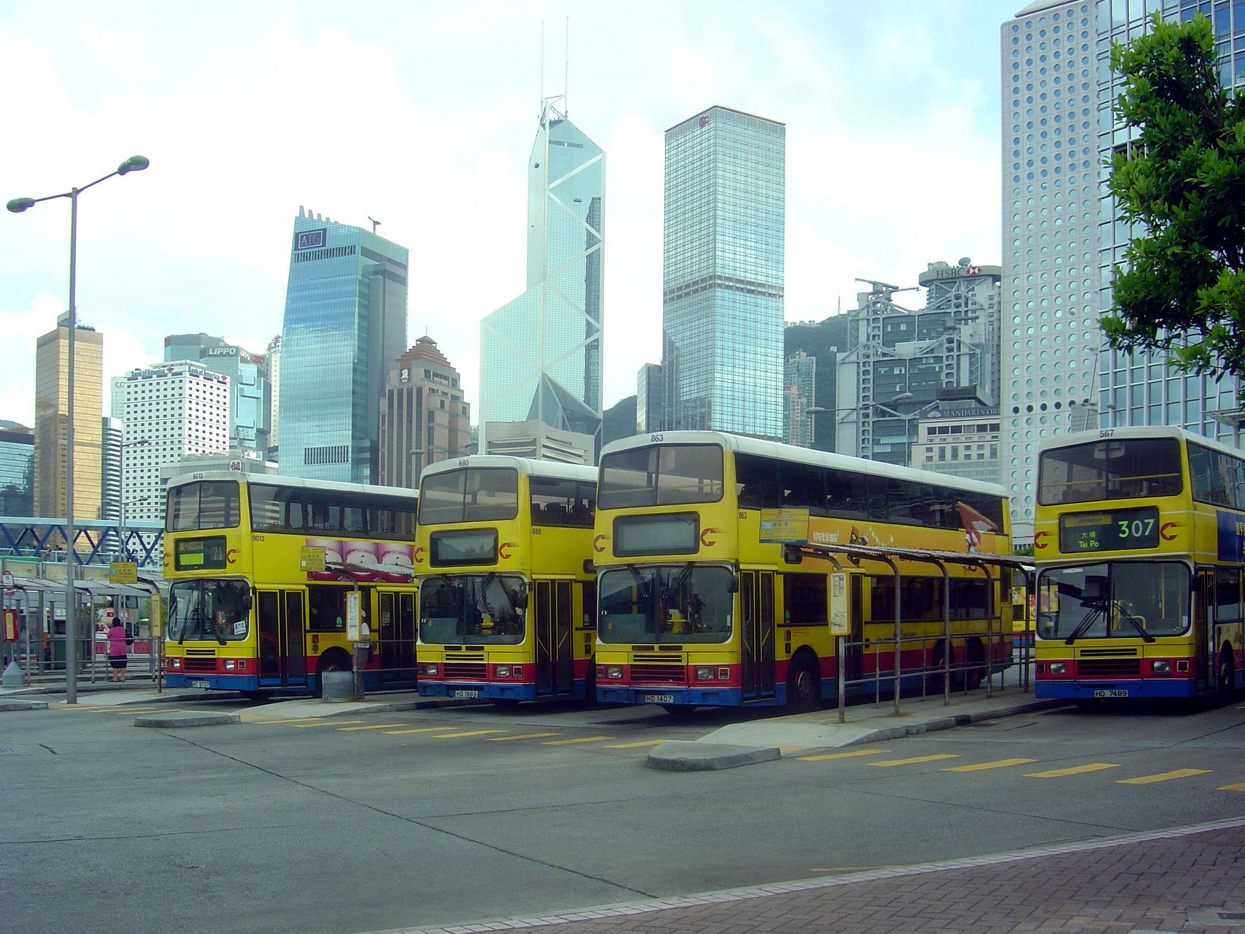 Four buses of the fleet of Citybus waiting at the Central Ferry Piers bus terminus in Hong Kong